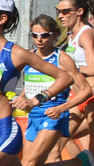 Catherine Bvertone in the marathon at Rio 2016